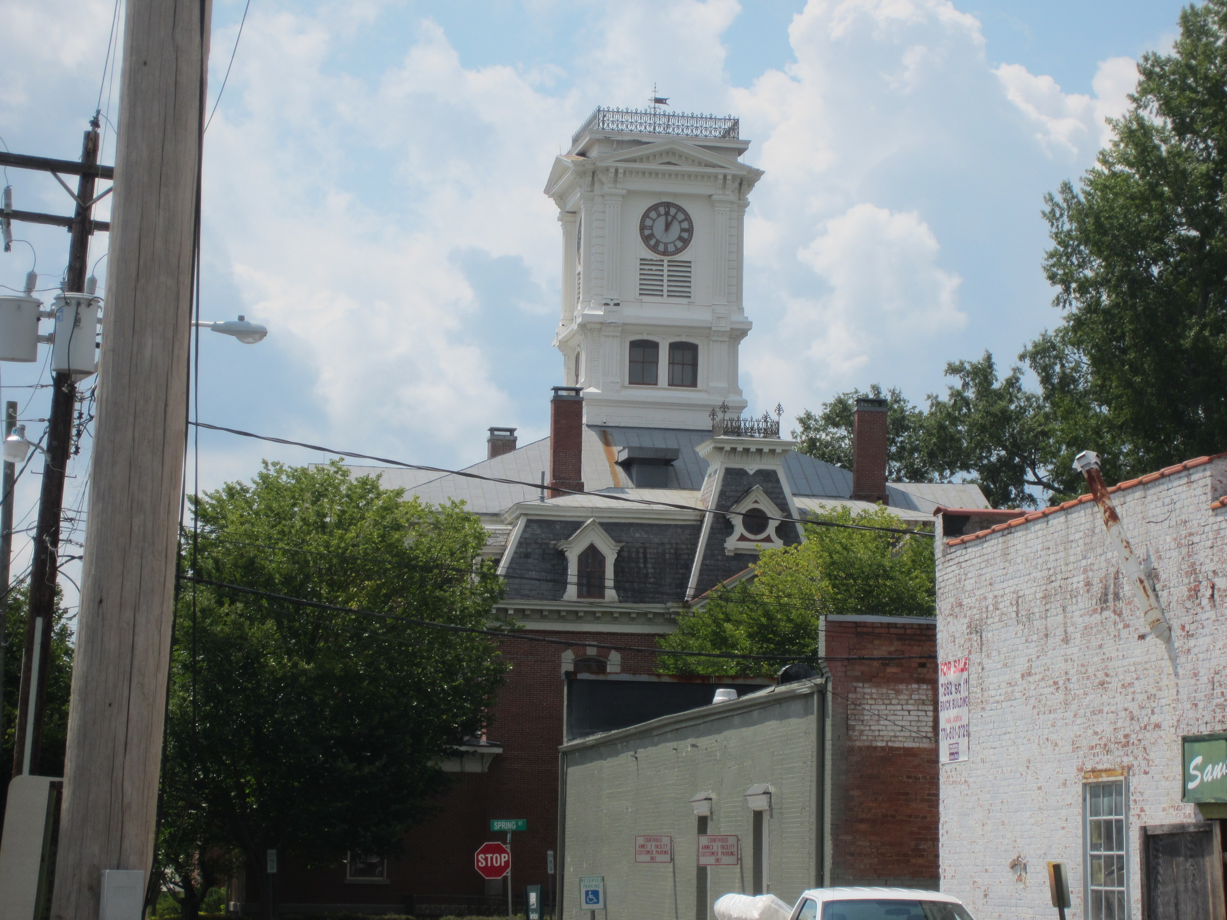 Walton County, Georgia (U.S.) courthouse in downtown Monroe